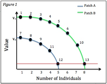 Ideal free distribution theory